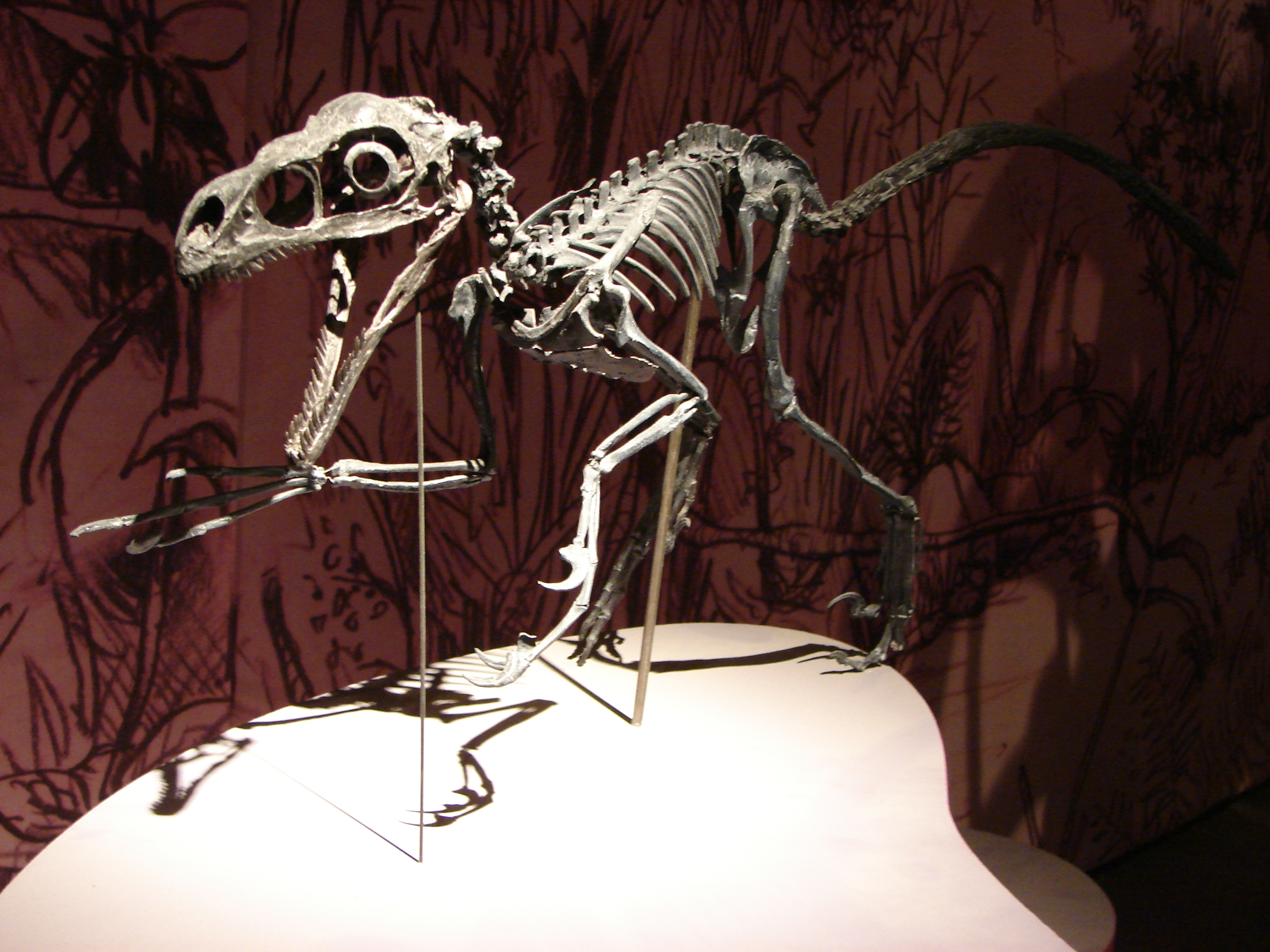 Skeletal mount of a Bambiraptor at the 2010 exhibition "Dans l'ombre des dinosaures" (French for 'In the shadow of the Dinosaurs'), at the National Museum of Natural History of France, in Paris.